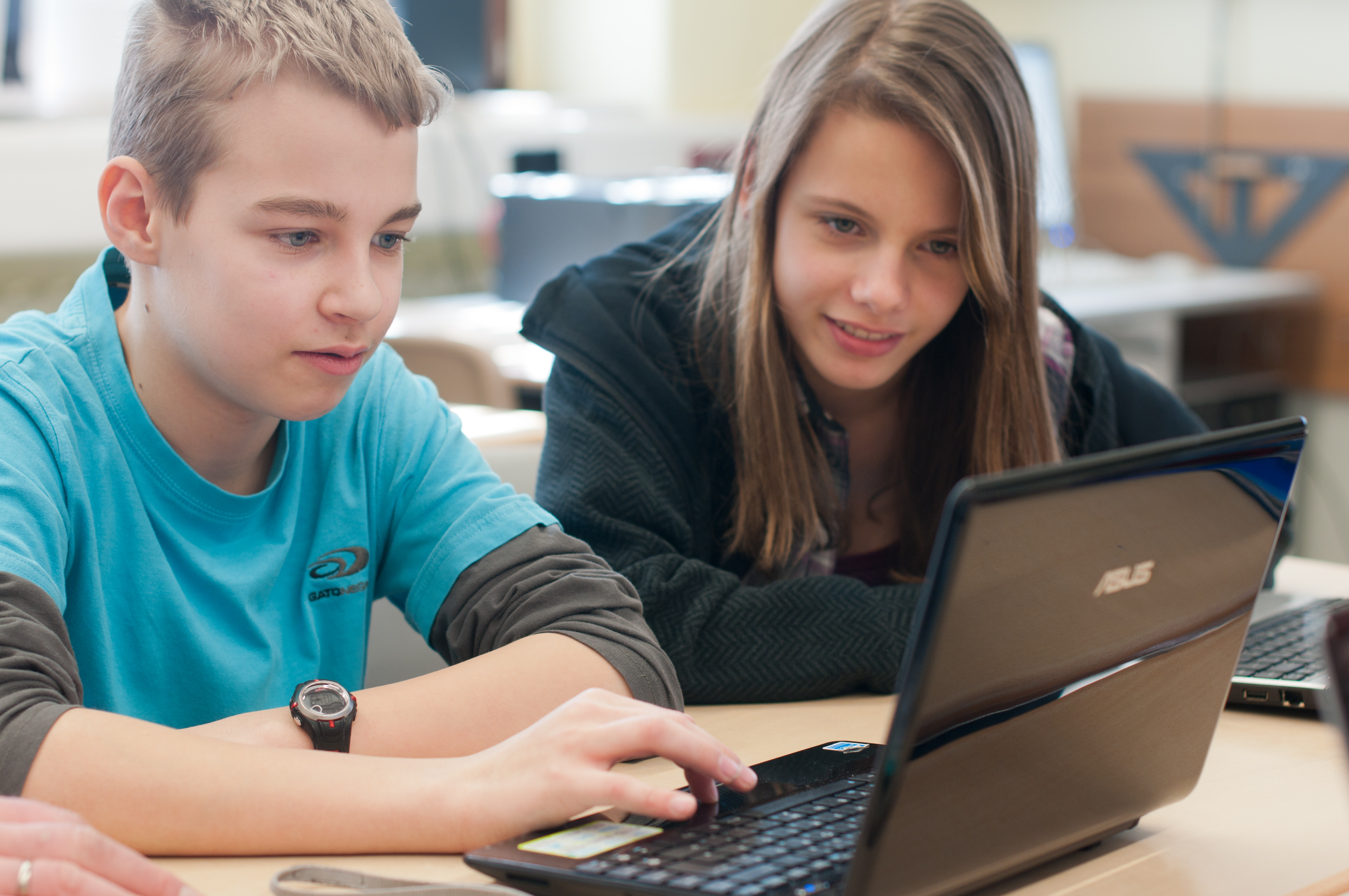 learning with Mediawiki in a scool in Berlin